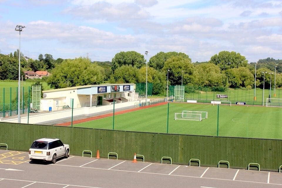 AJN Stadium the home of Keynsham Town Football Club